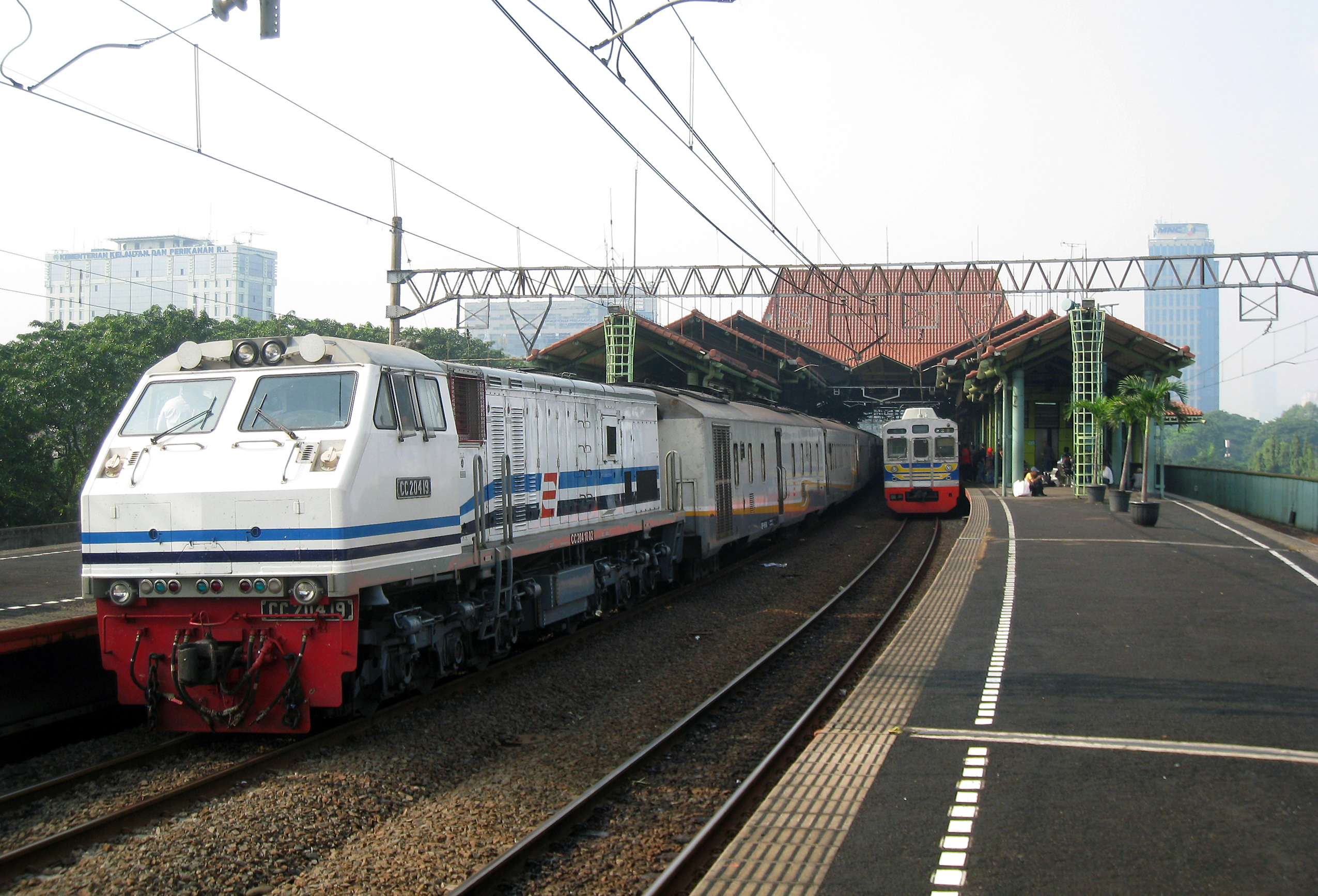 Gambir Station elevated railway platform, Central Jakarta, Indonesia. On the left is Argo train that connect Jakarta with other cities in Java island, on the far center is the KRL Commuter linking Jakarta with suburb towns arround Jakarta.